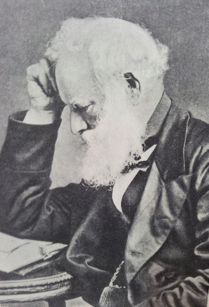 William Porter. Cape politician and attorney general